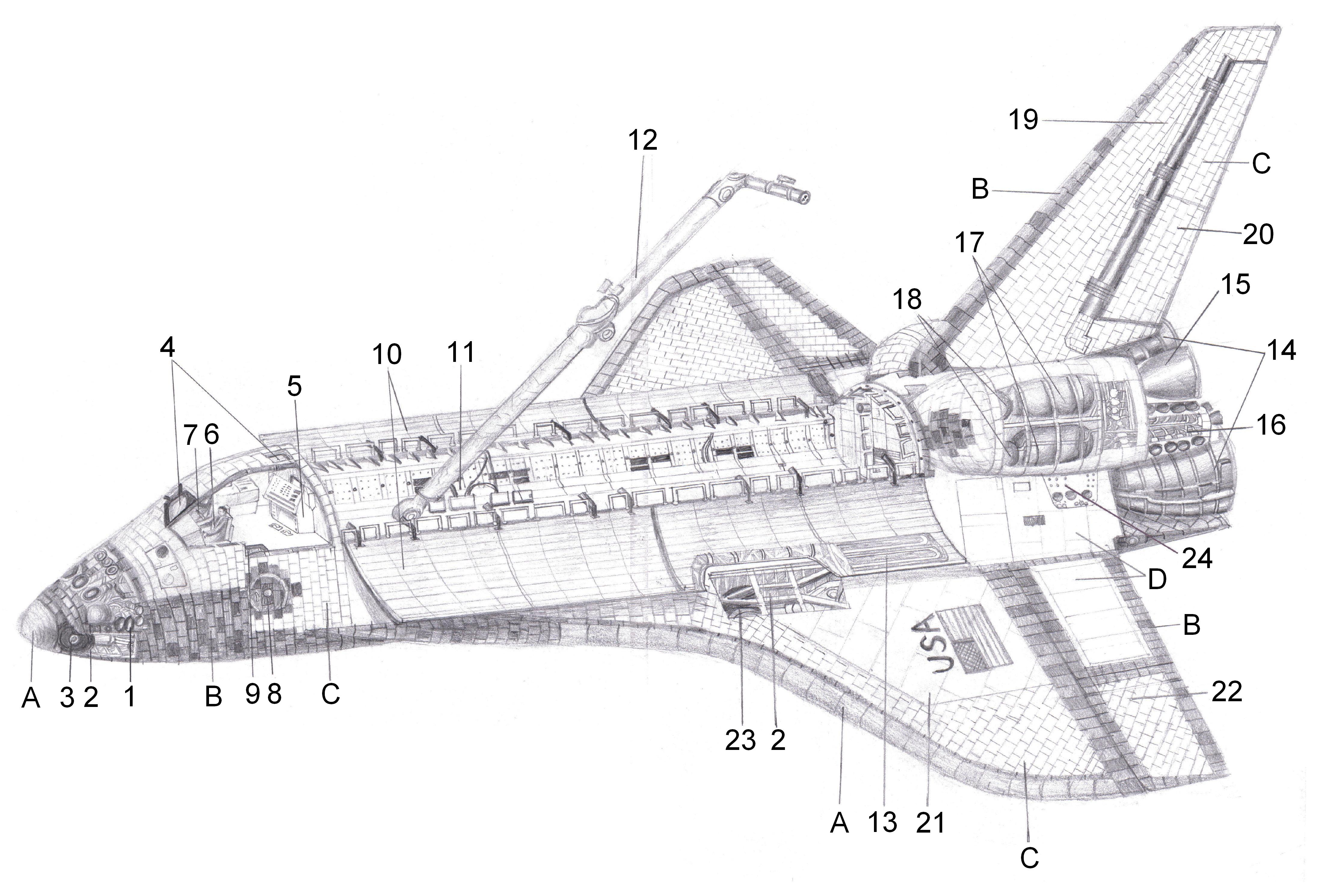 A labelled diagram showing the components of a Space Shuttle Orbiter. Legend: Forward Reaction Control System (RCS) Front landing gear Front landing gear Windows Control panel Commander Pilot Entrance hatch Hatch to middeck Payload bay doors Payload bay Remote Manipulator System (SRMS) Radiators Three RS-25 Space Shuttle Main Engines (SSME) OM Engine Aft Reaction Control System (RCS) OMS/RCS propellant tanks OMS/RCS helium tanks Vertical stabiliser Rudder Wing Elevon Main landing gear Ground umbilical attach point